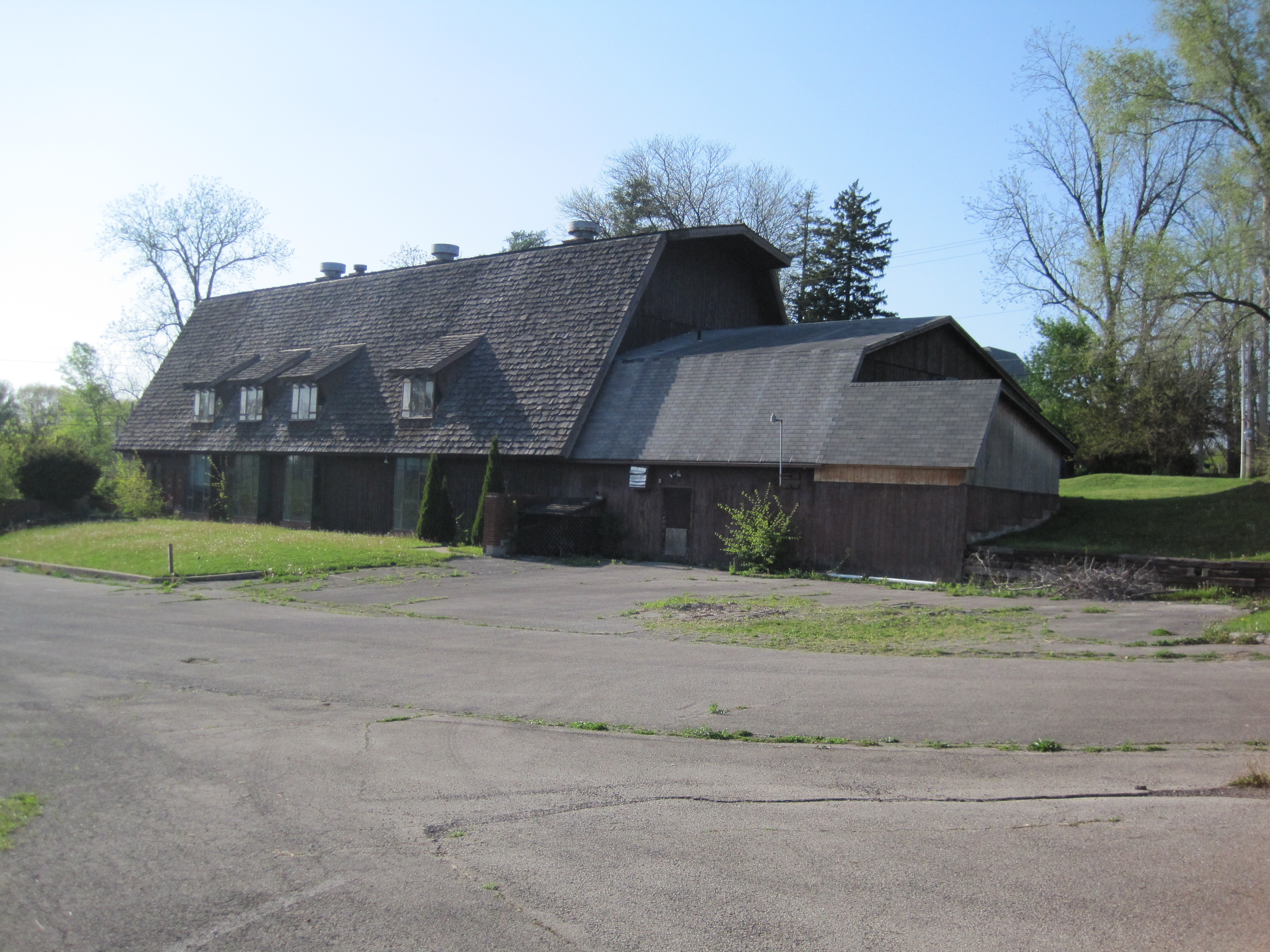 The vacant Karyn Kupcinet Playhouse on the former campus of Shimer College in Mount Carroll, Illinois.